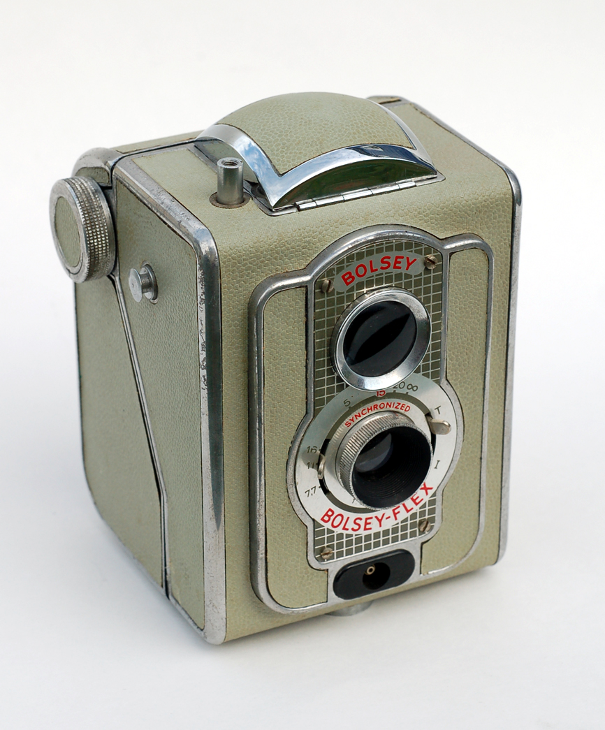 Twin-lens camera, made c1954 by Ising (Germany) for Bolsey (New York). This camera is a name variant of the Ising Pucky I, as is the Sears Tower 120 Flash.